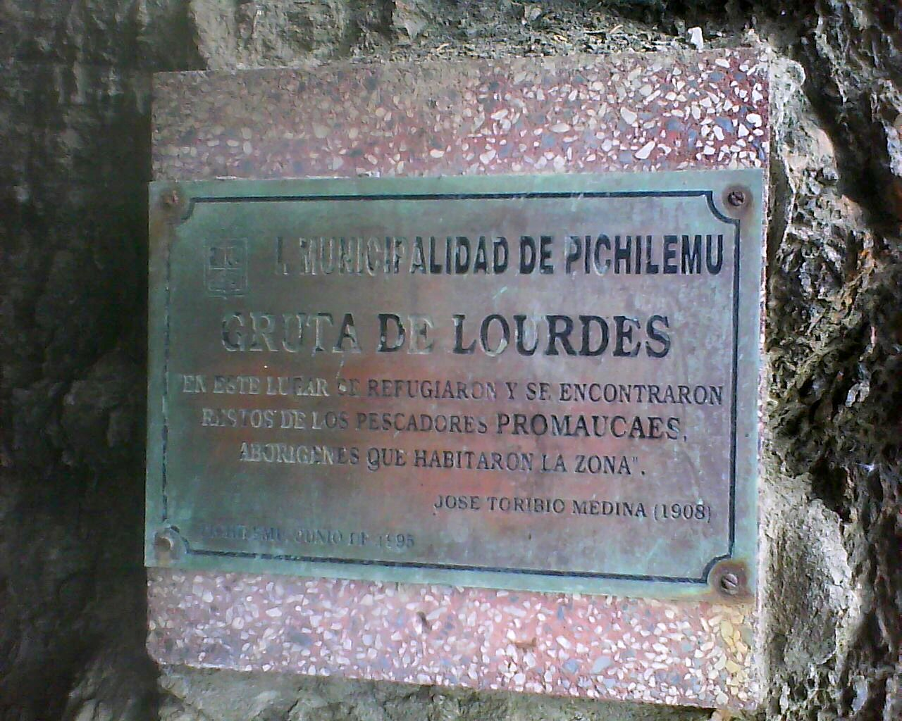 Sign of the entrance to the Grotto of the Virgin.